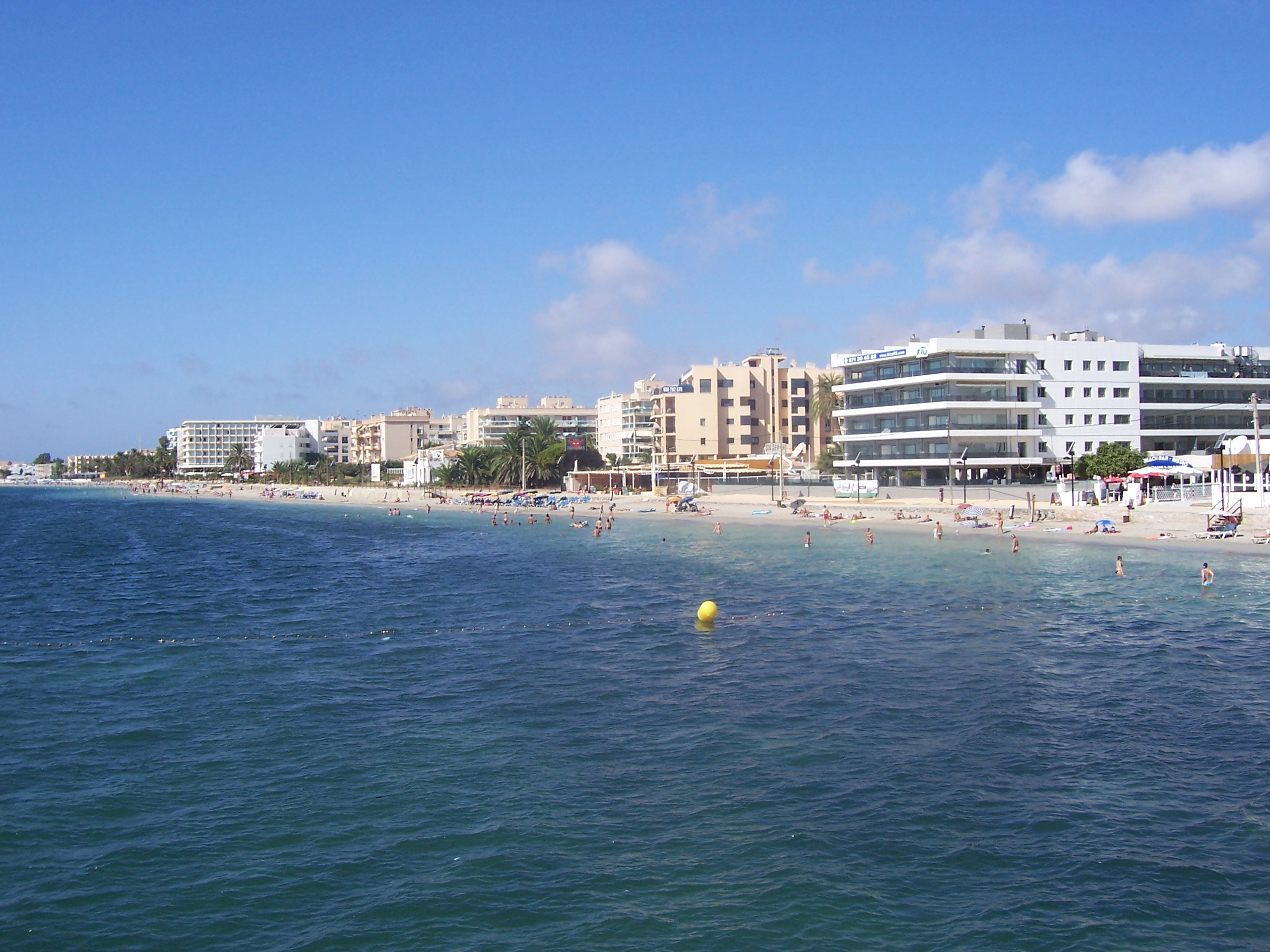 Playa Den Bossa, Ibiza